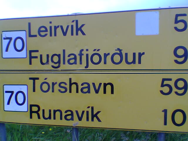 This file shows an example of the Faroese use of the o with double acute instead of the normal ø.